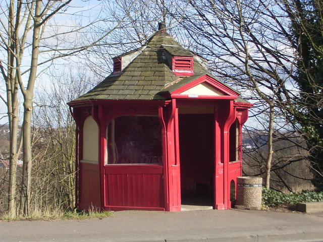 Tram shelter The shelter situated on Edgerton Road was on the St Georges Square to Lindley route one of the first routes of the Huddersfield Corporation Tramways in 1901 painted in the Tramway colours of vermilion and cream.